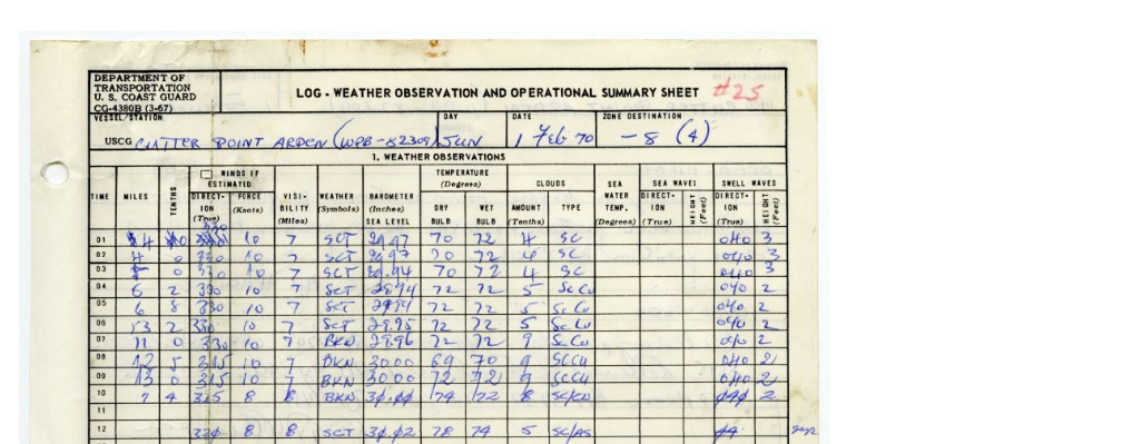 Page of logbook of USCG Point Arden for 2 Feb 1970